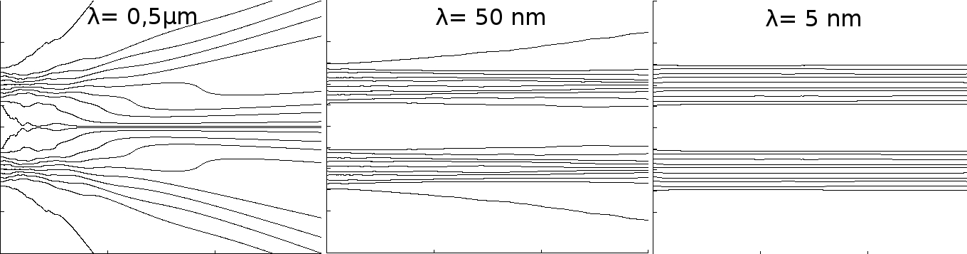 Change of the energy flow lines as the frequency increases: λ= 0,5μm; λ= 50 nm; λ= 5 nm.